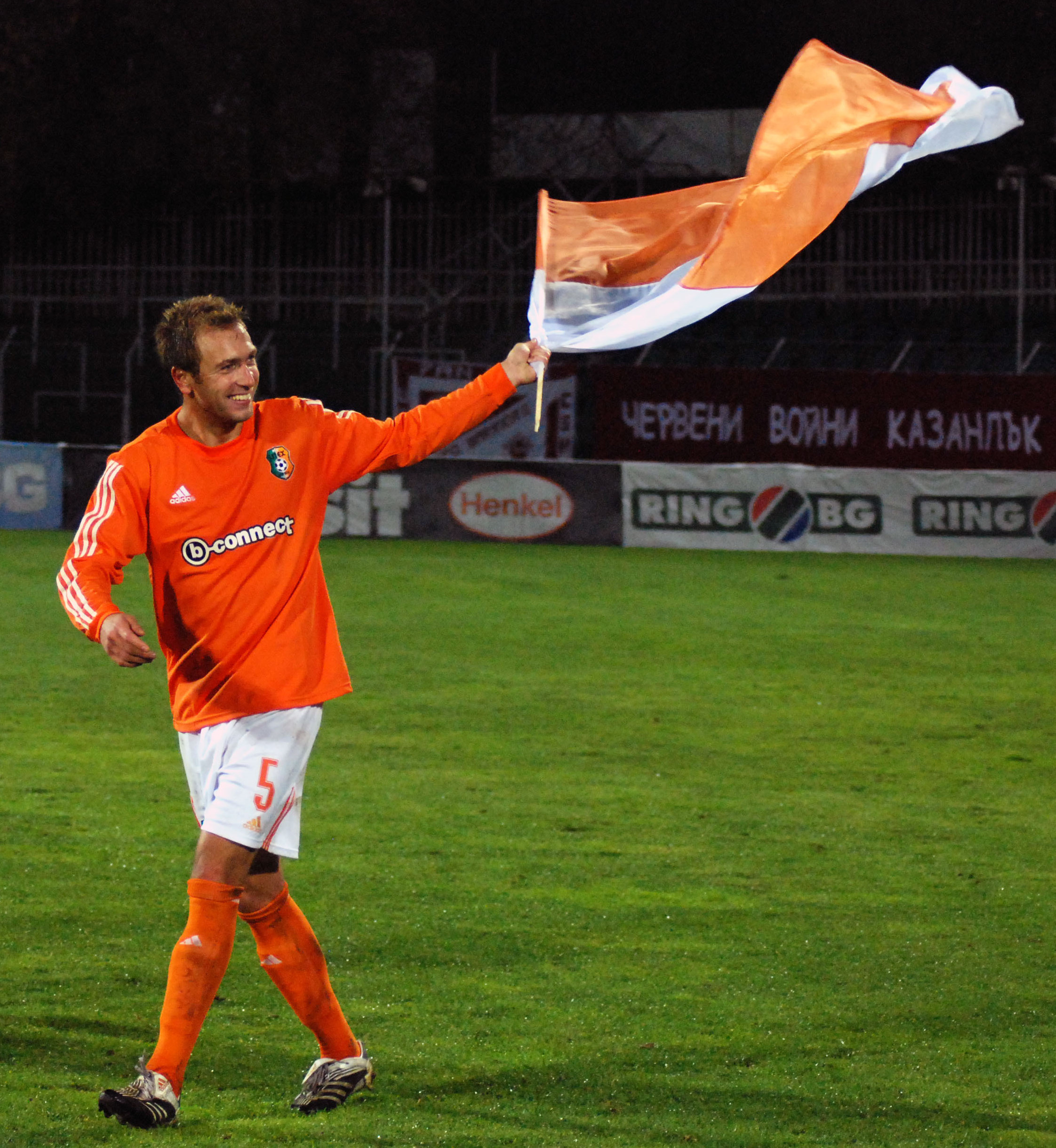 Mihail Venkov